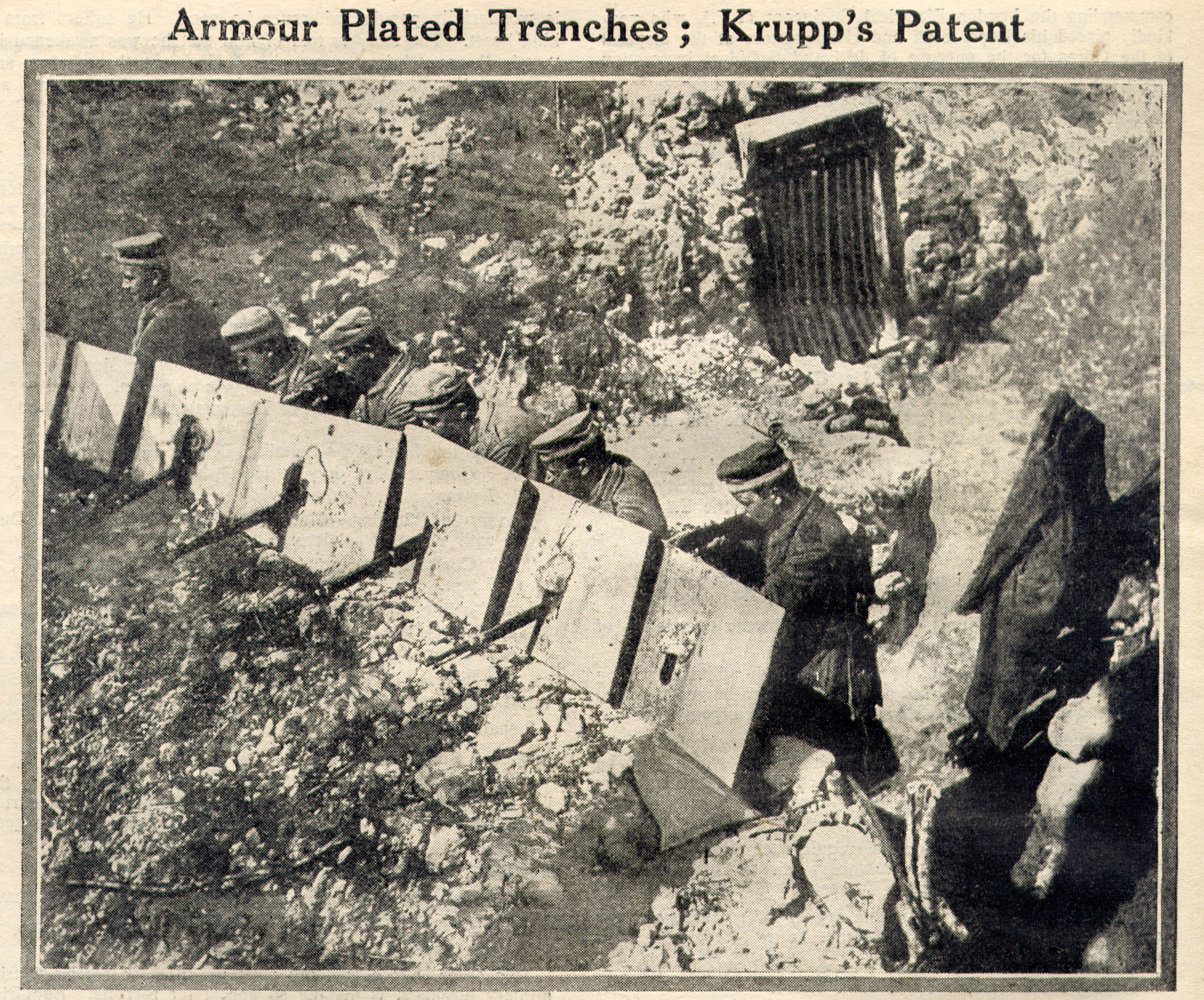 This photo by an unknown photographer appeared in the Dec. 30, 1915 issue of the english war magazine "The War Budget" and shows soldiers sticking their guns through armour plates, developed by Krupp.